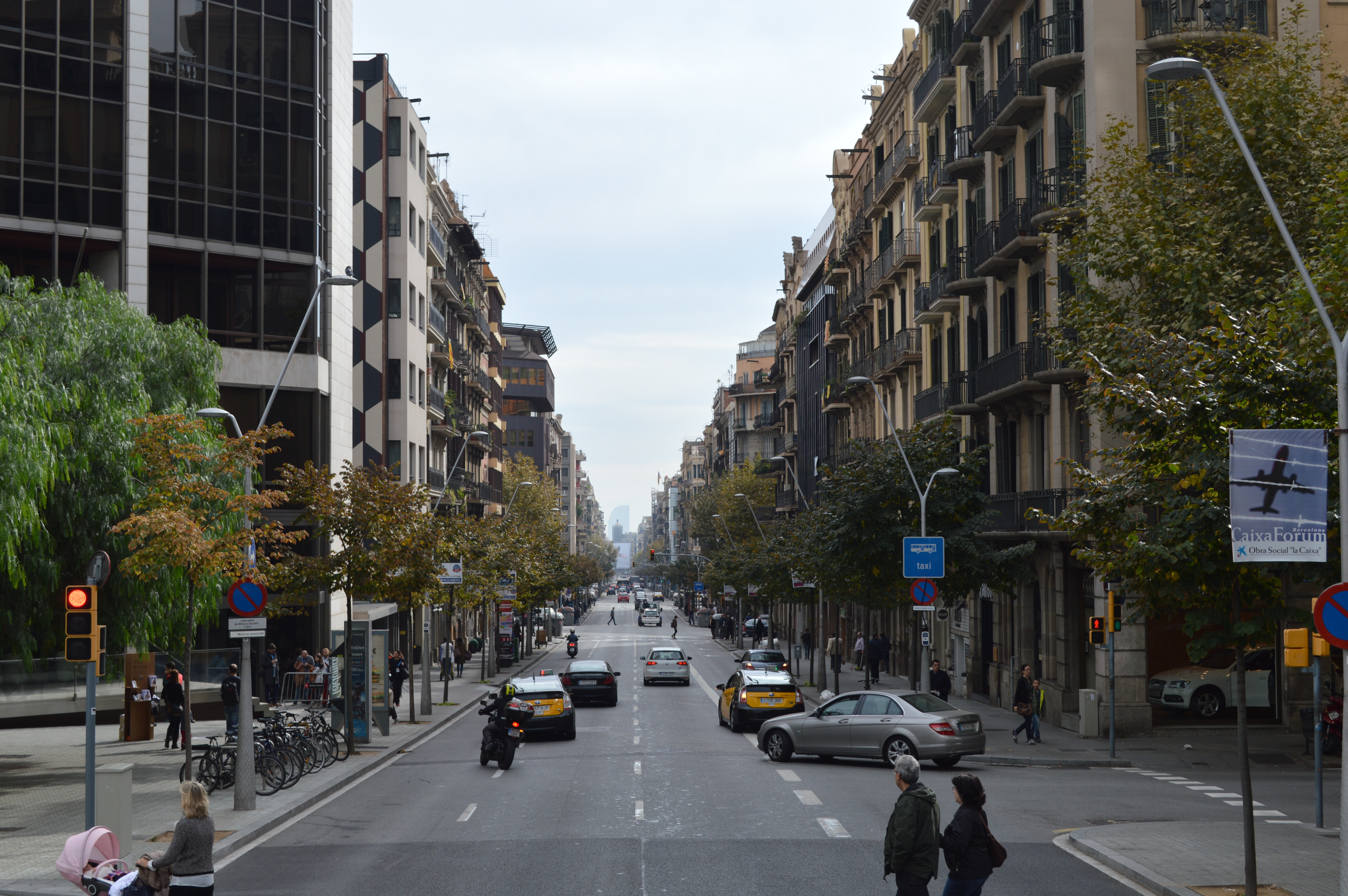 Steets Barcelona